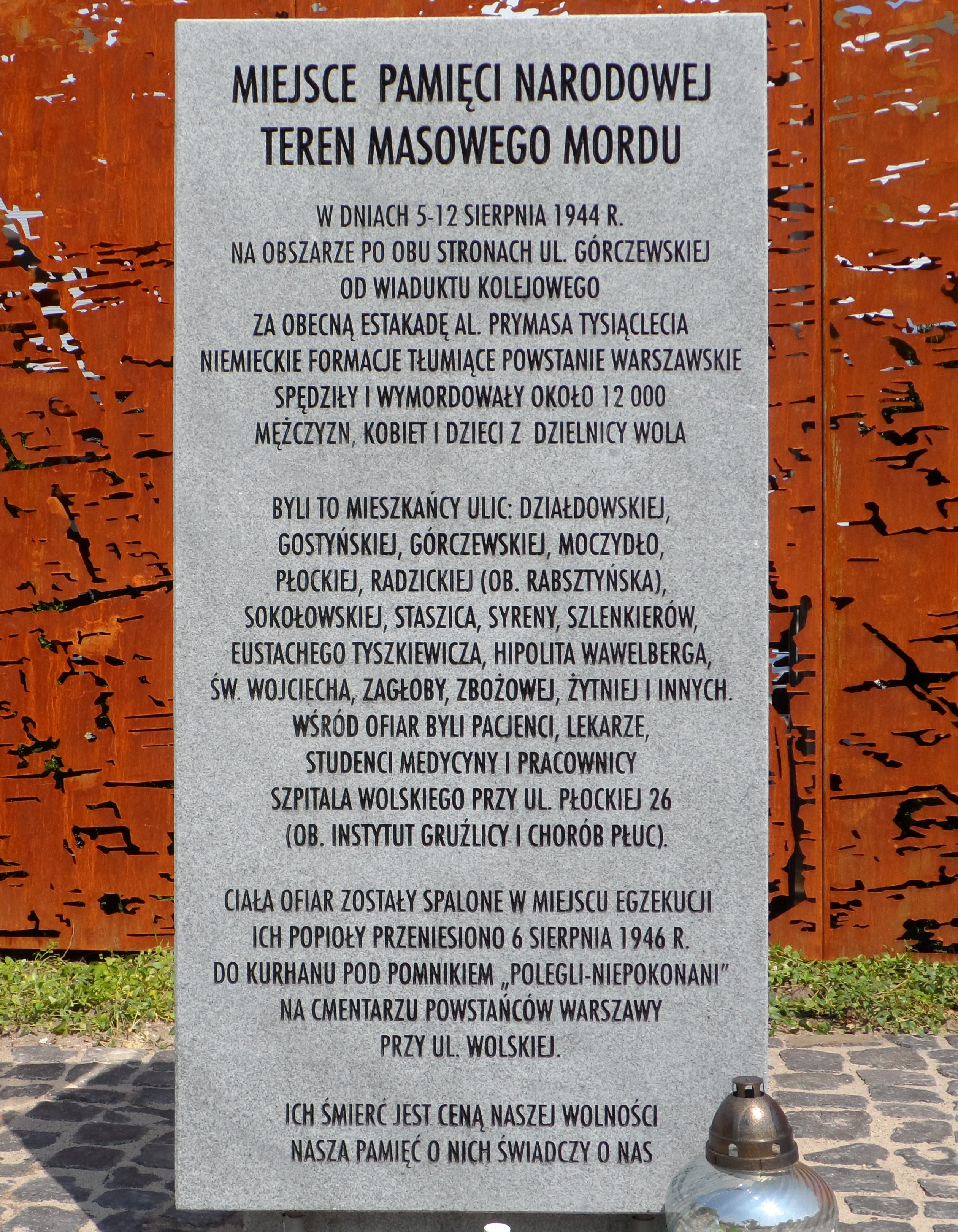 Place of National Memory at 32 Górczewska Street in Warsaw, commemorating the site where the greatest number of killings took place during so-called Wola massacre (first days of Warsaw Uprising). Between 5 and 8 August 1944, in the backyard of the building at the intersection of Górczewska Street and Zagłoby Street (currently non-existent), near the railway embankment, Nazi-German troops murdered almost 12 000 Polish men, women and children.